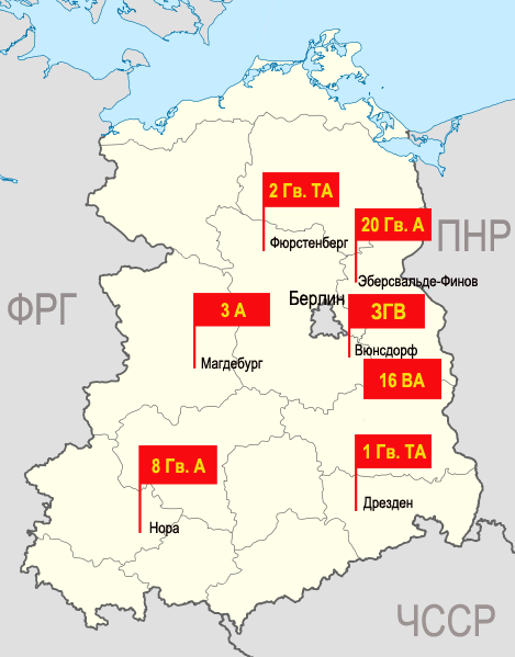 The dislocation map shows the Headquarters (HQ) of the Western Group of (soviet) Troops (WGT) and the HQ of the subordinate six Armies, on territory on the former GDR, in 1991.